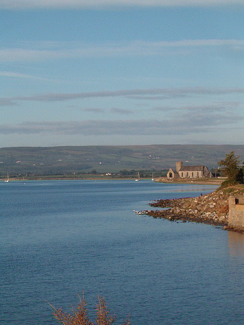 Abbeyside Church from Abbeyside Cove, Christmas 2006/7